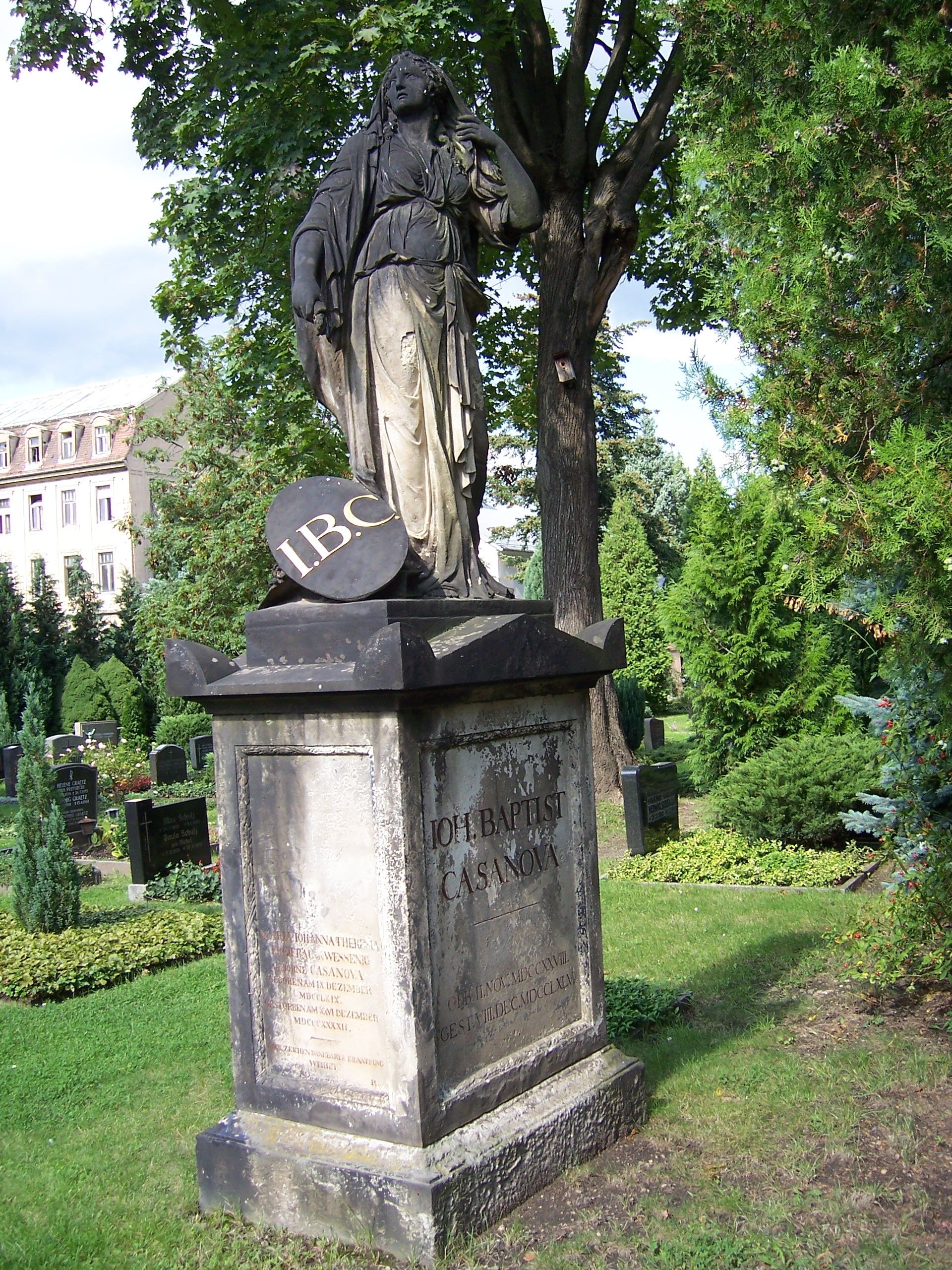 Grave of Italien painter Giovanni Battista Casanova at the Alter Katholischer Friedhof in Dresden.